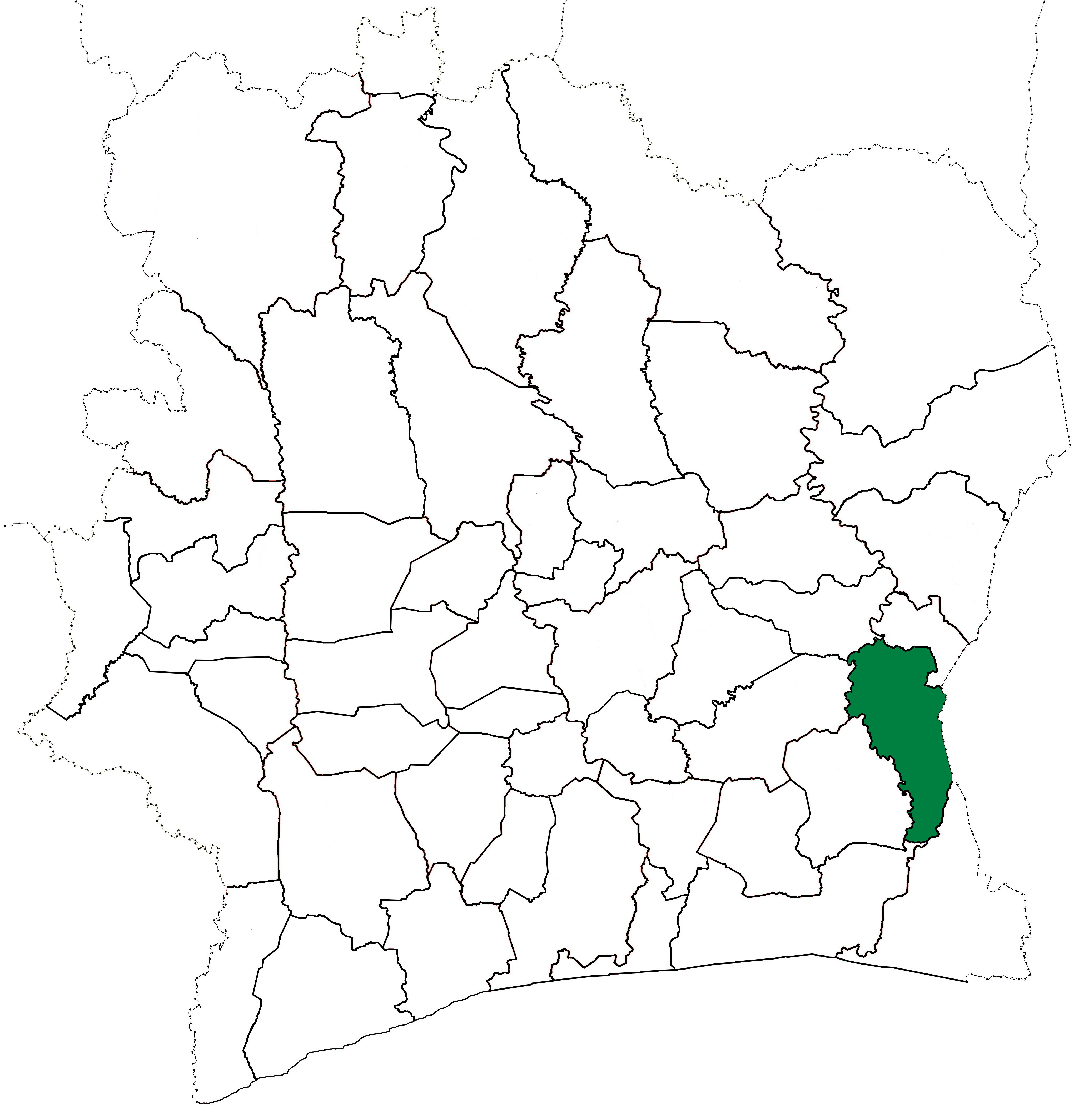 Locator map for Abengourou Department in Côte d'Ivoire in 1995. Abengourou Department kept these boundaries until 2008, but other boundary changes to subdivisions of Côte d'Ivoire began to be made in 1997.